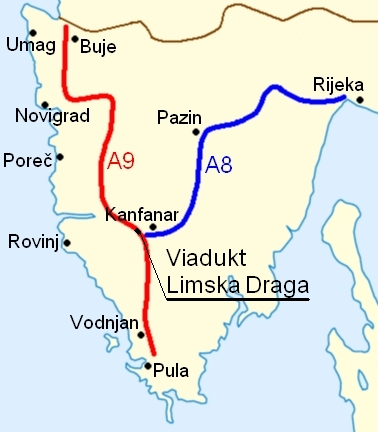 Location of the Limska draga Bridge, Croatia